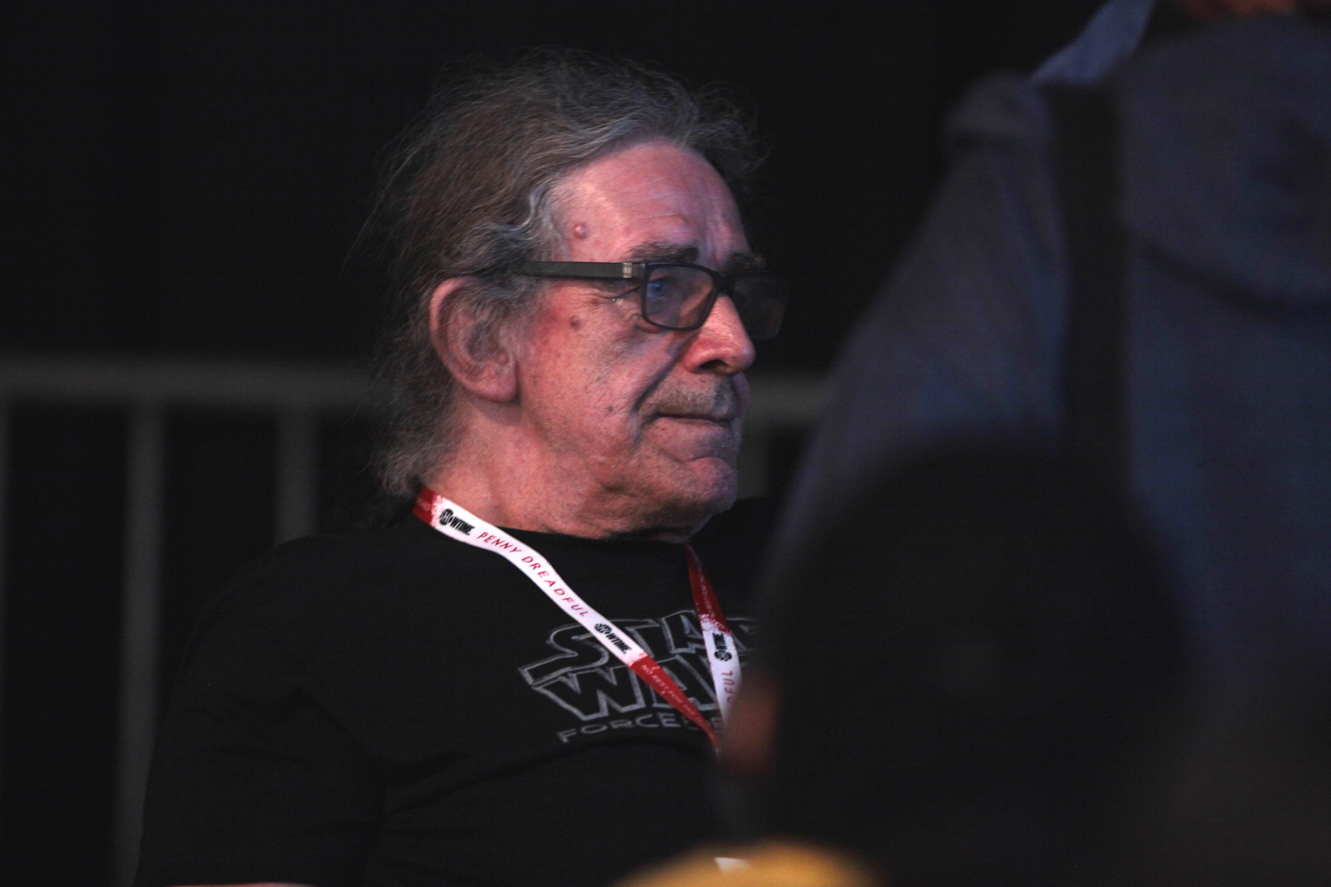 Peter Mayhew speaking at the 2015 San Diego Comic Con International, for "Star Wars: The Force Awakens", at the San Diego Convention Center in San Diego, California.